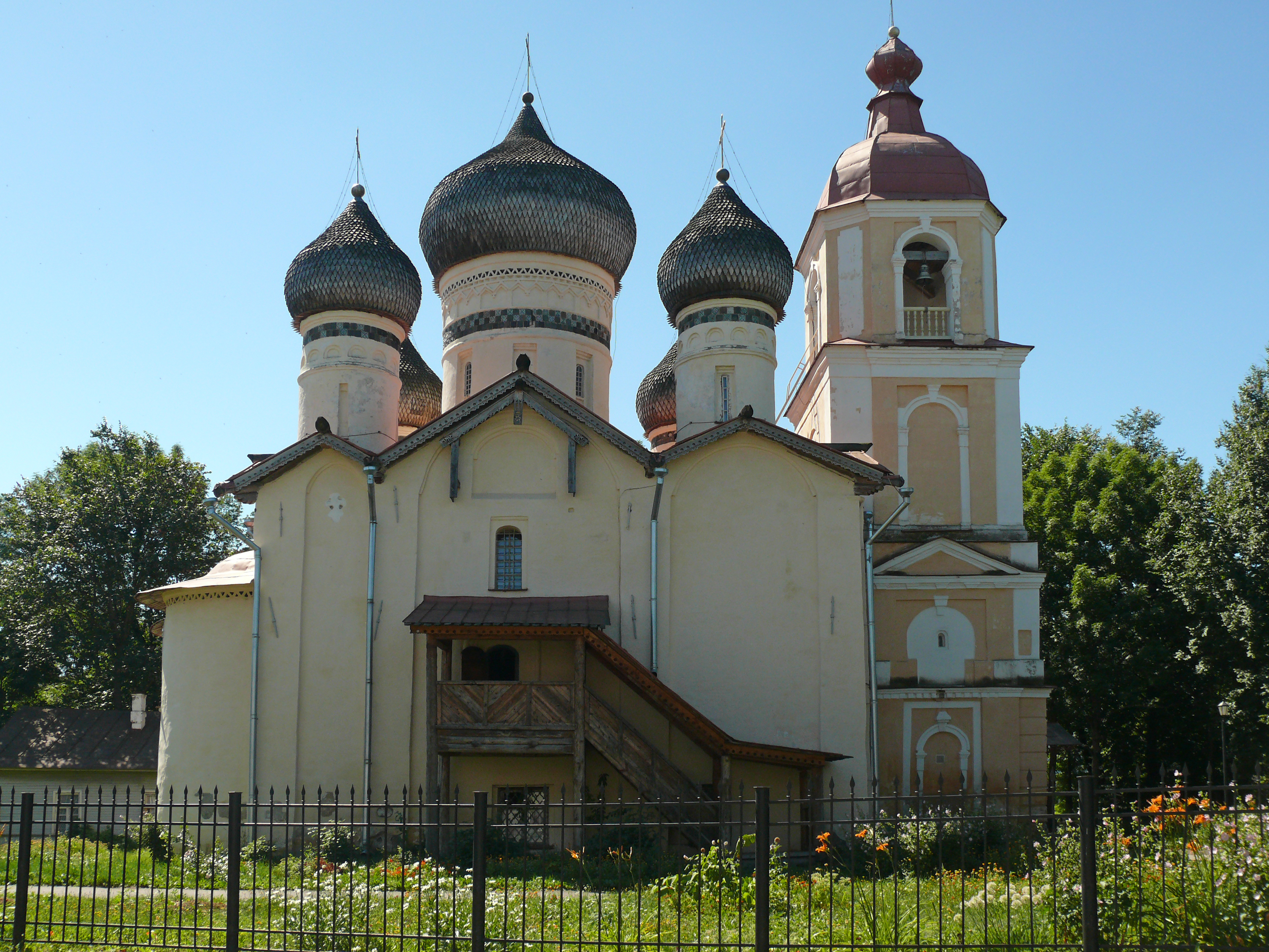 The Theodor the Stratilat churche on Shirkova street in Veliky Novgorod, Russia